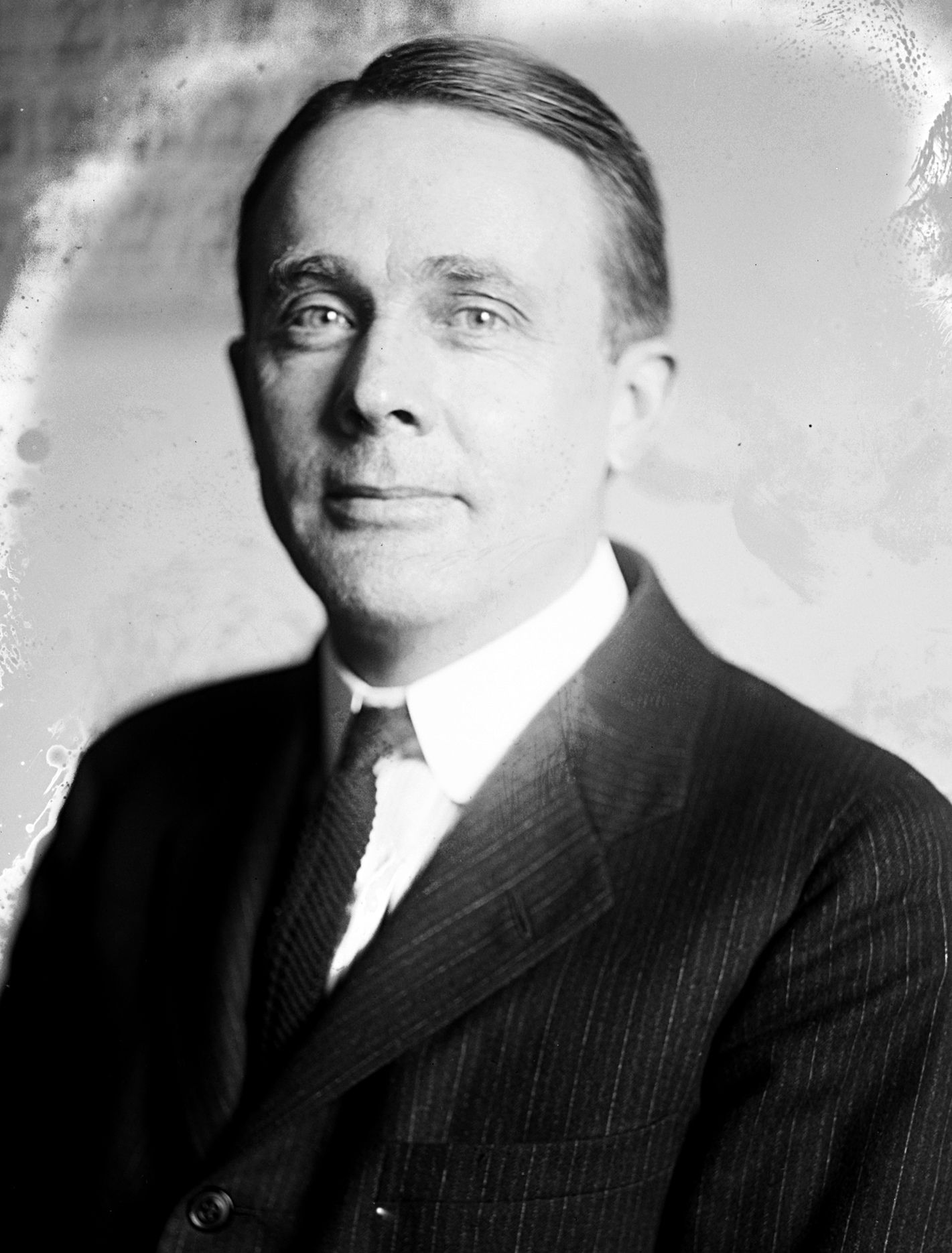 John C. Ketcham, US Representative from Michigan